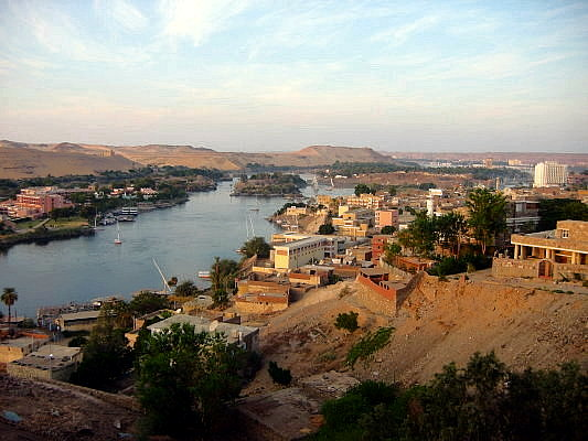 A photograph of the Egyptian city of Aswan, taken from the air